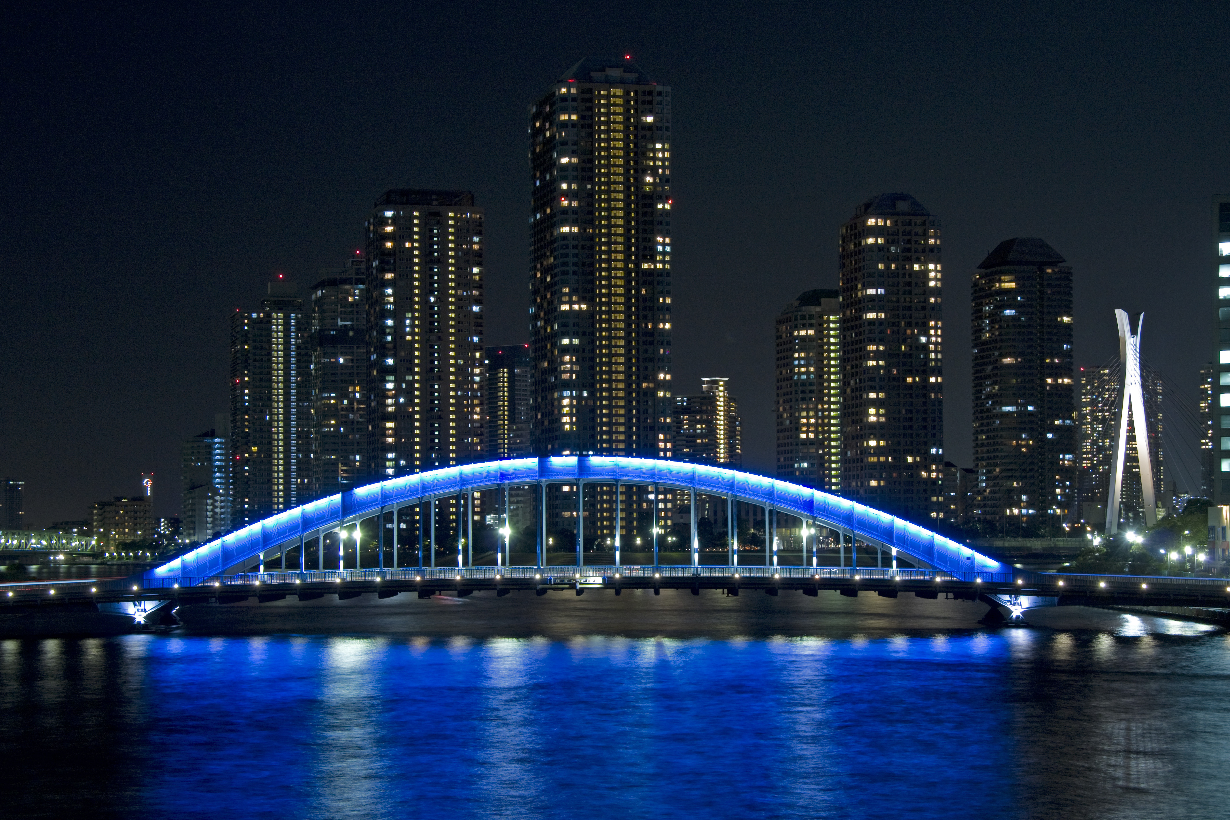 Night view of Eitai Bridge